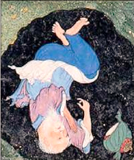 Painting of Mirdas, King of Arabia in The Shahnama of Shah Tahmasp